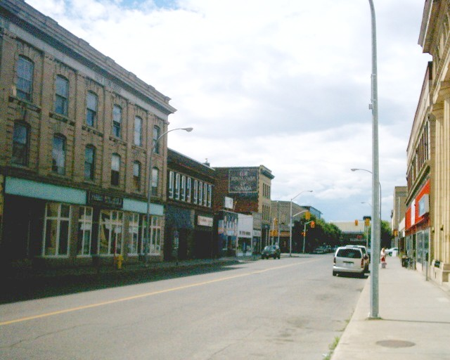 Victoria Street in Thunder Bay, Ontario